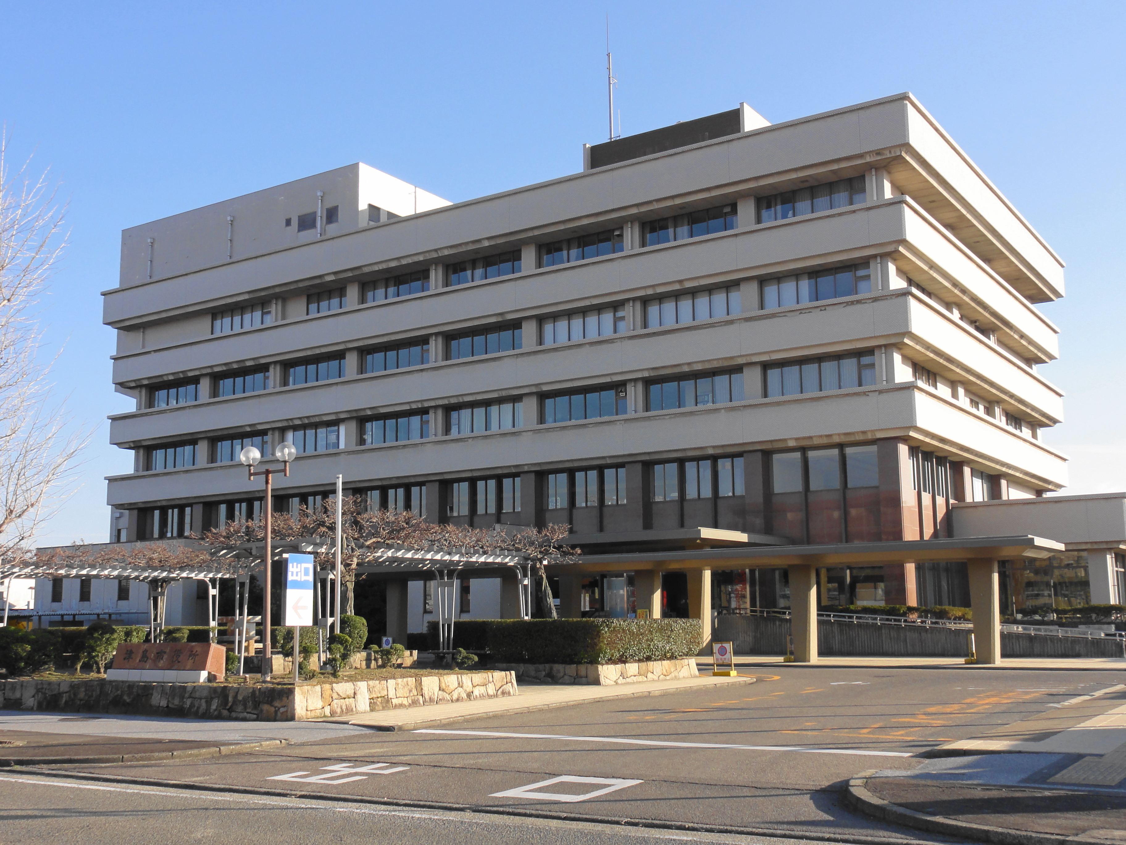 Tsushima city office,Aichi prefecture,Japan